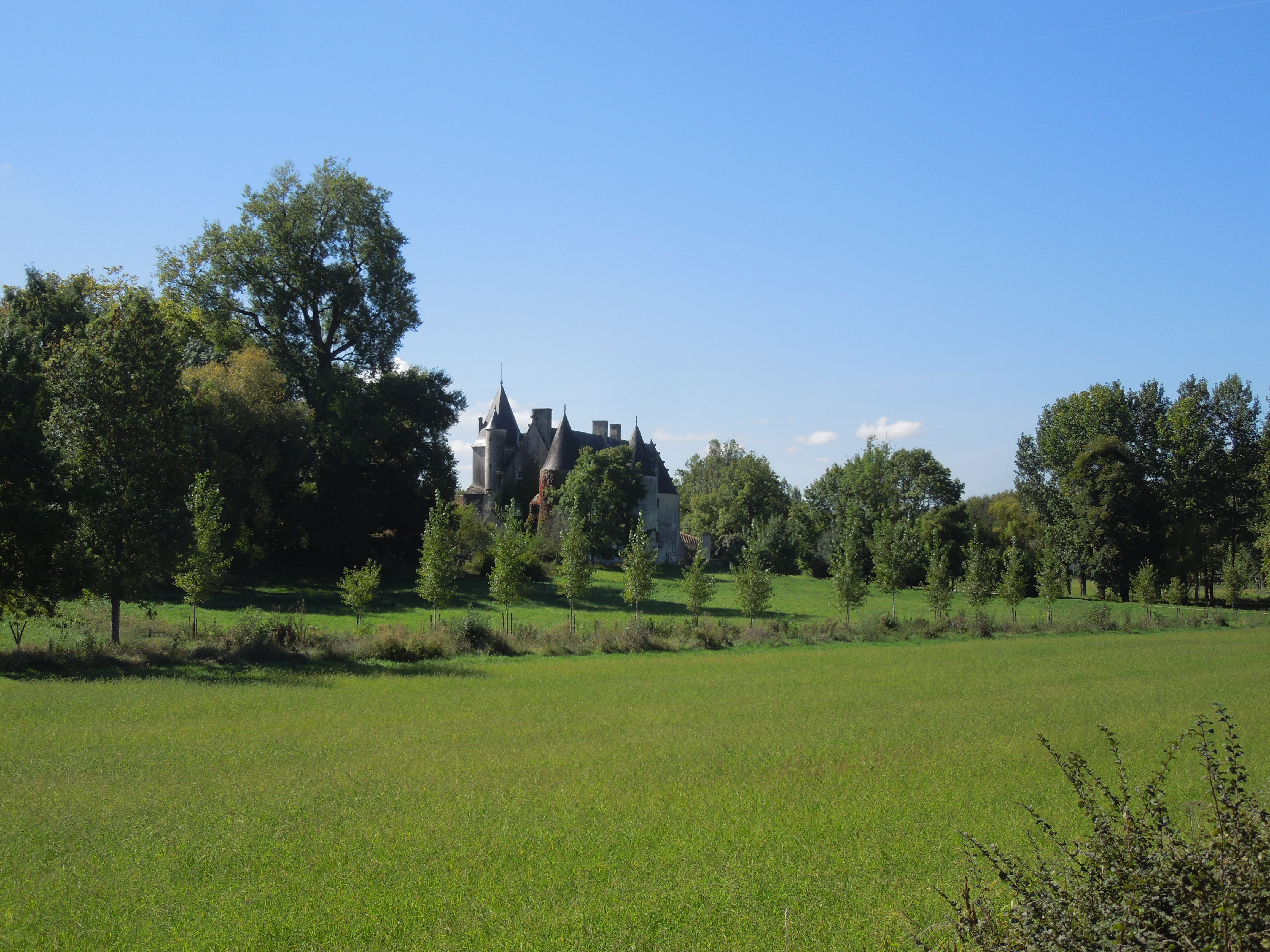 Château du Breuil near Bonneuil, as seen from the road